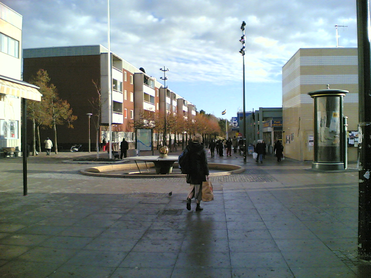 Tensta suburb, Stockholm. Tunnelbana. Left is immigrant office, right Tunnelbana station, back Tensta Centrum shoppign center.